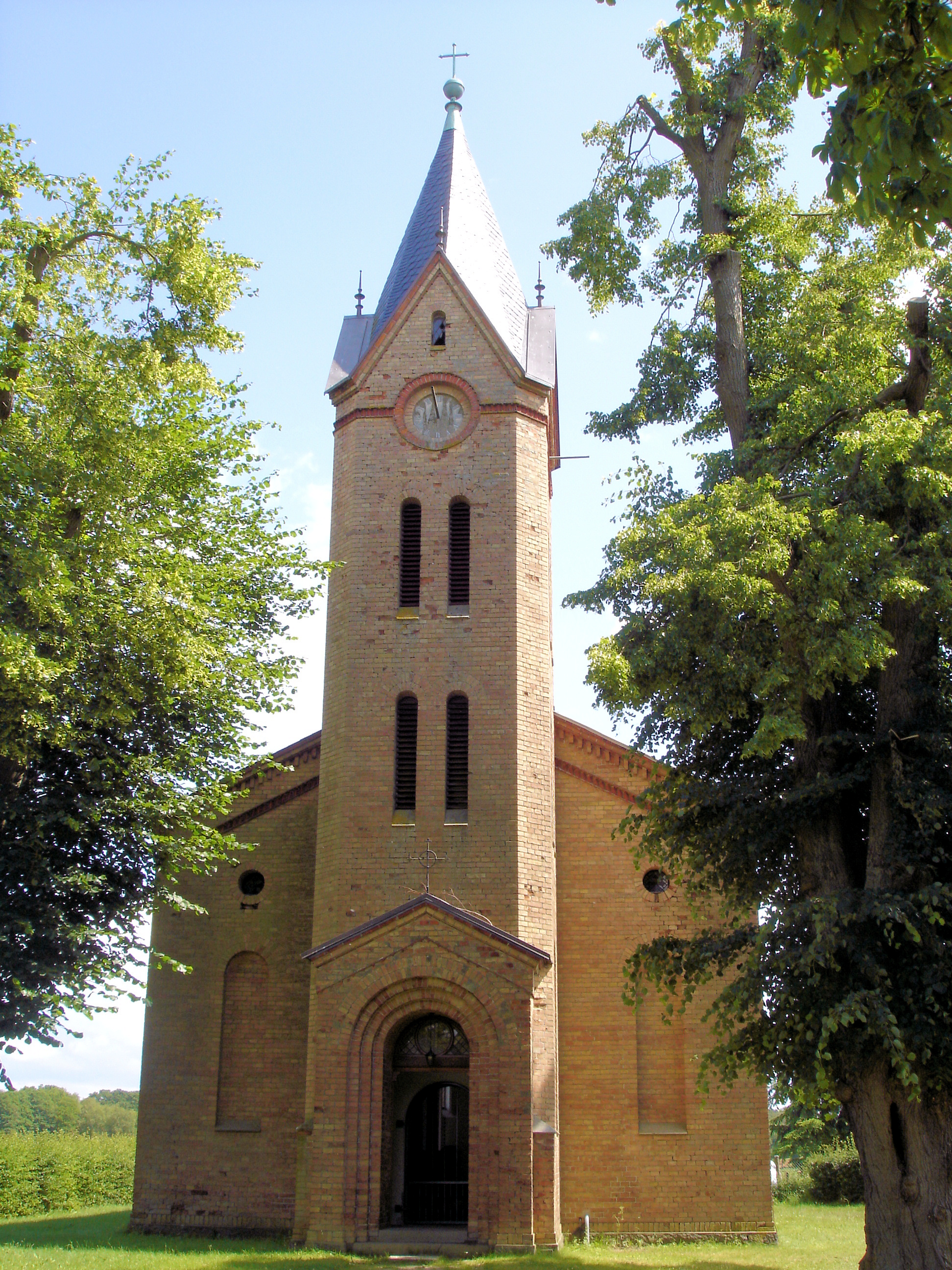 Church in Leussow, Mecklenburg, Germany